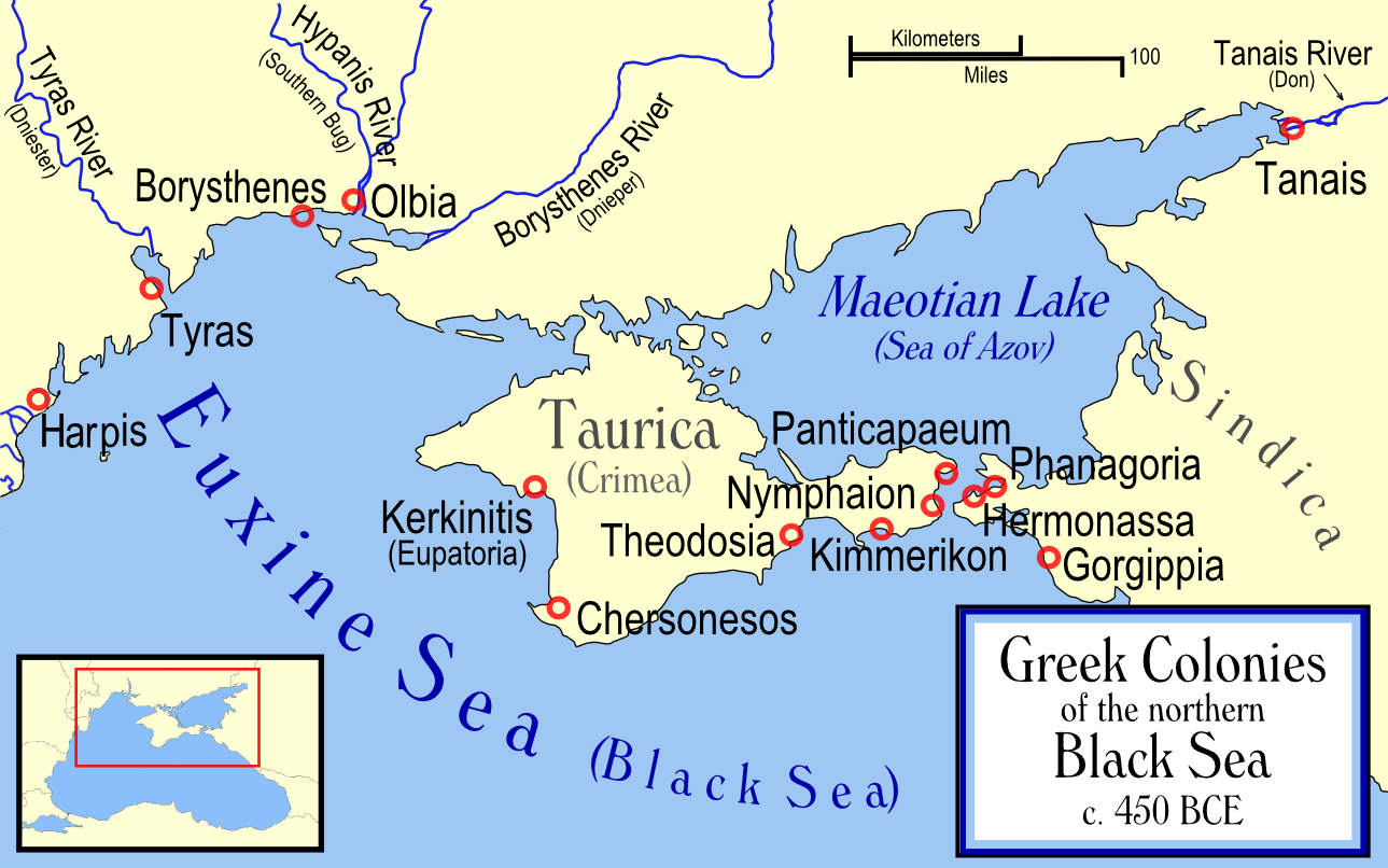 Map showing Ancient Greek colonies on the northern coast of the Black Sea.